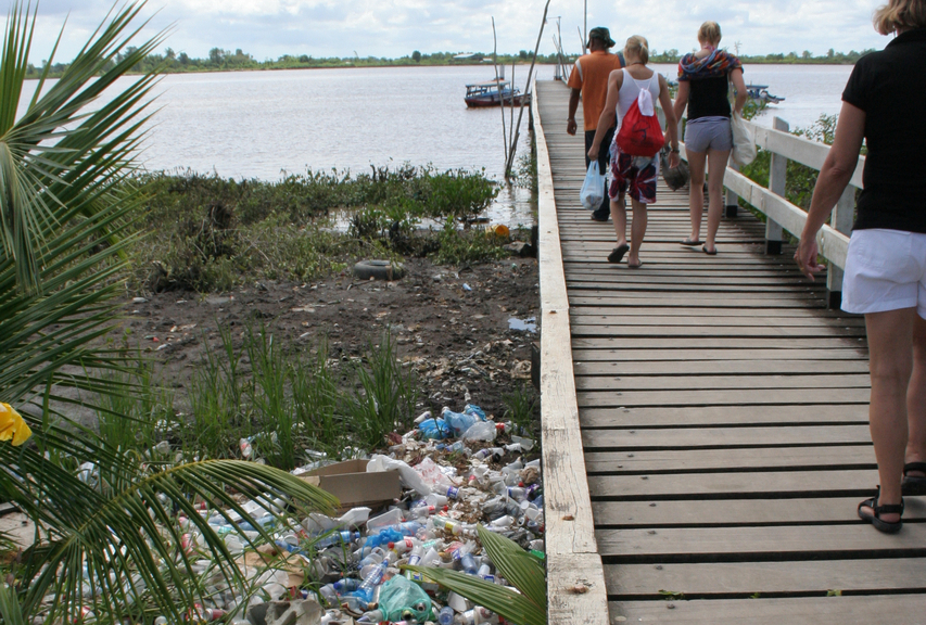 Looking for River dolphins, Sotalia guianensis, at Braamspunt, Suriname.